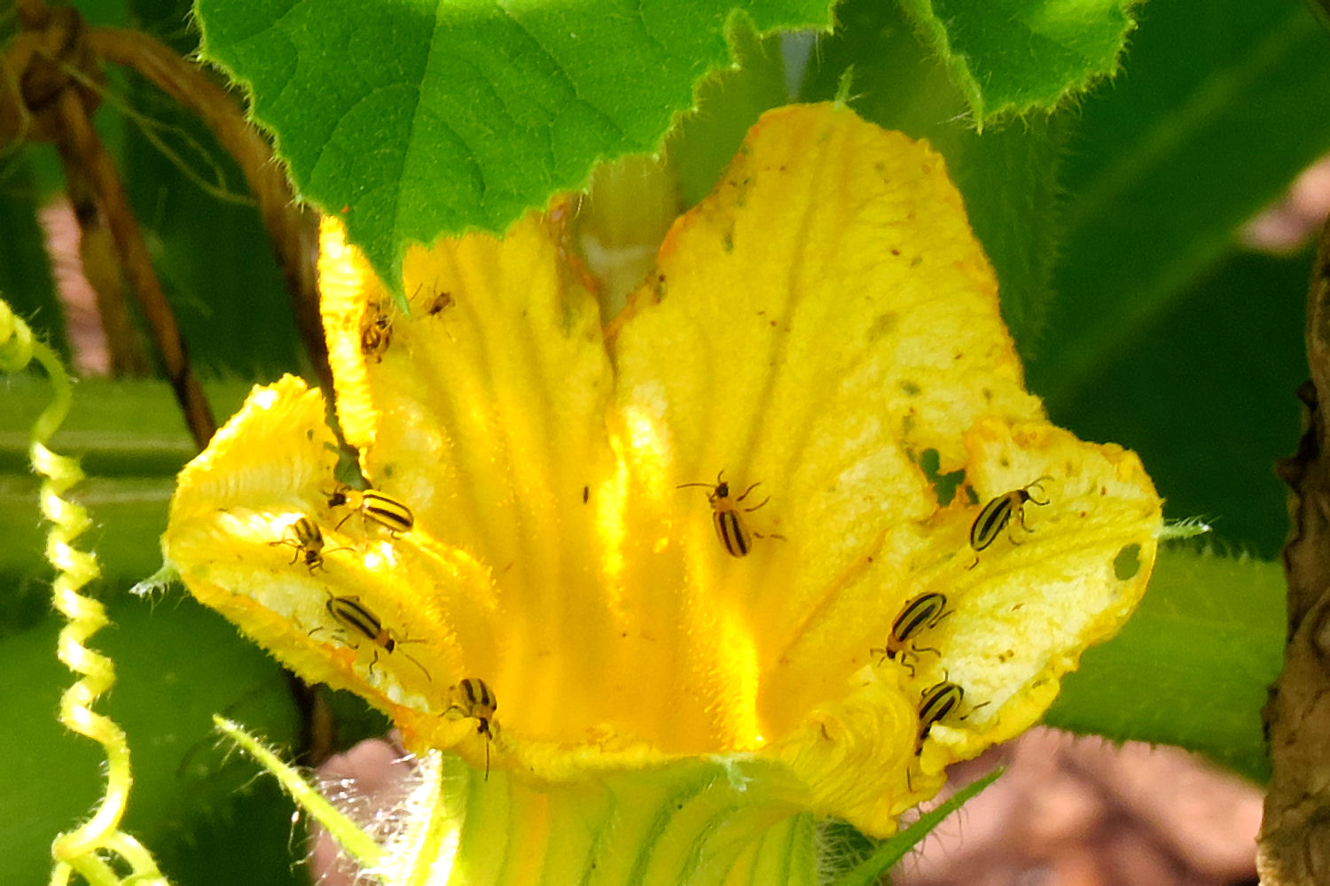 Striped cucumber beetles (Acalymma vittatum), Ottawa, Ontario, Canada